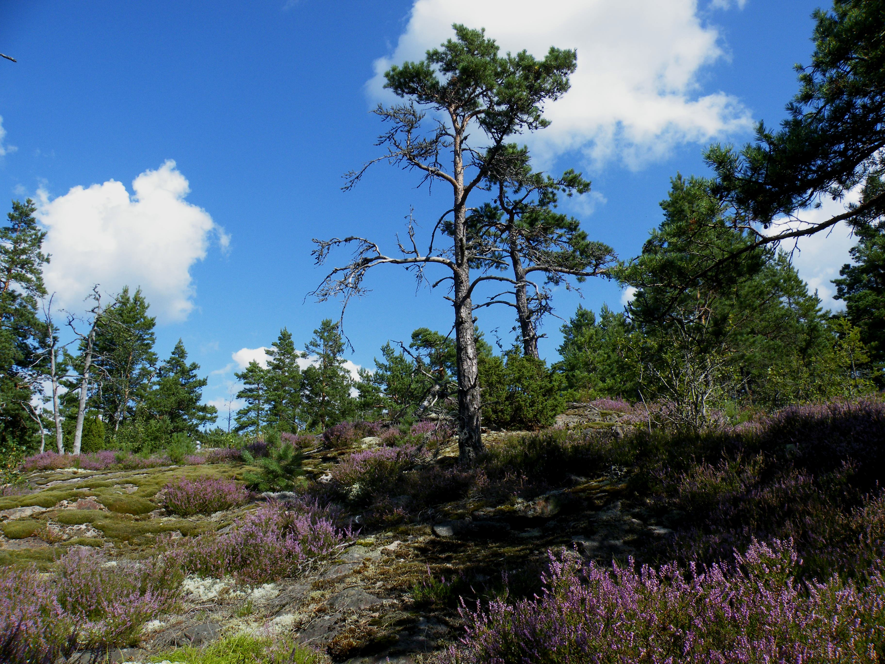 Heather grows more likely in pineforest and it likes sunny places. Finland.